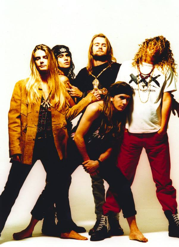 Push Push in 1992 - Scott Cortese, Shayne Silver, Steve Abplanalp, Andy Kane, Mikey Havoc